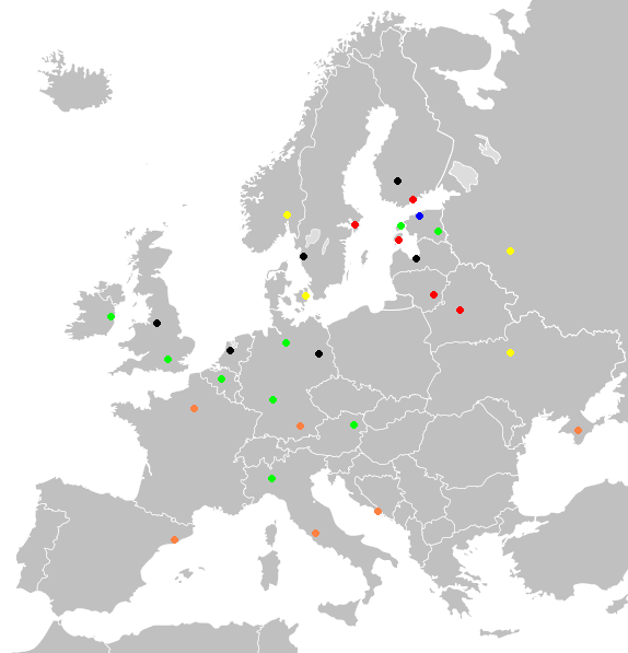 Estonian Air's Destinations. Blue means a hub, red means an Estonian Air Regional's destination, green means an Estonian Air's destination, yellow means a destination with code-sharing flight, orange means a seasonal destination and black means a terminated destination.